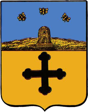 Coat of Arms of Spassk, 1781